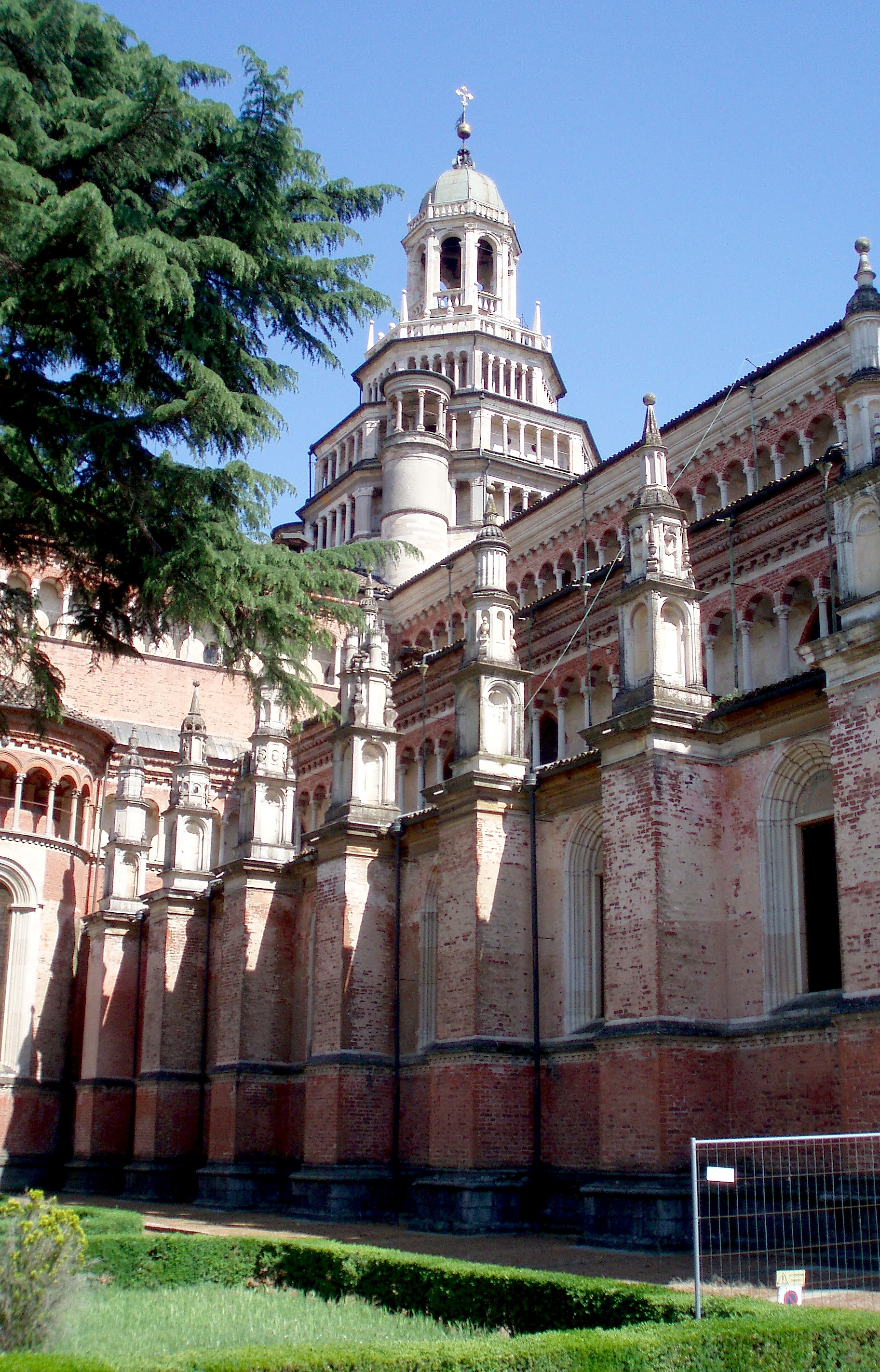 Certosa di Pavia, view of the tower from the Northwest